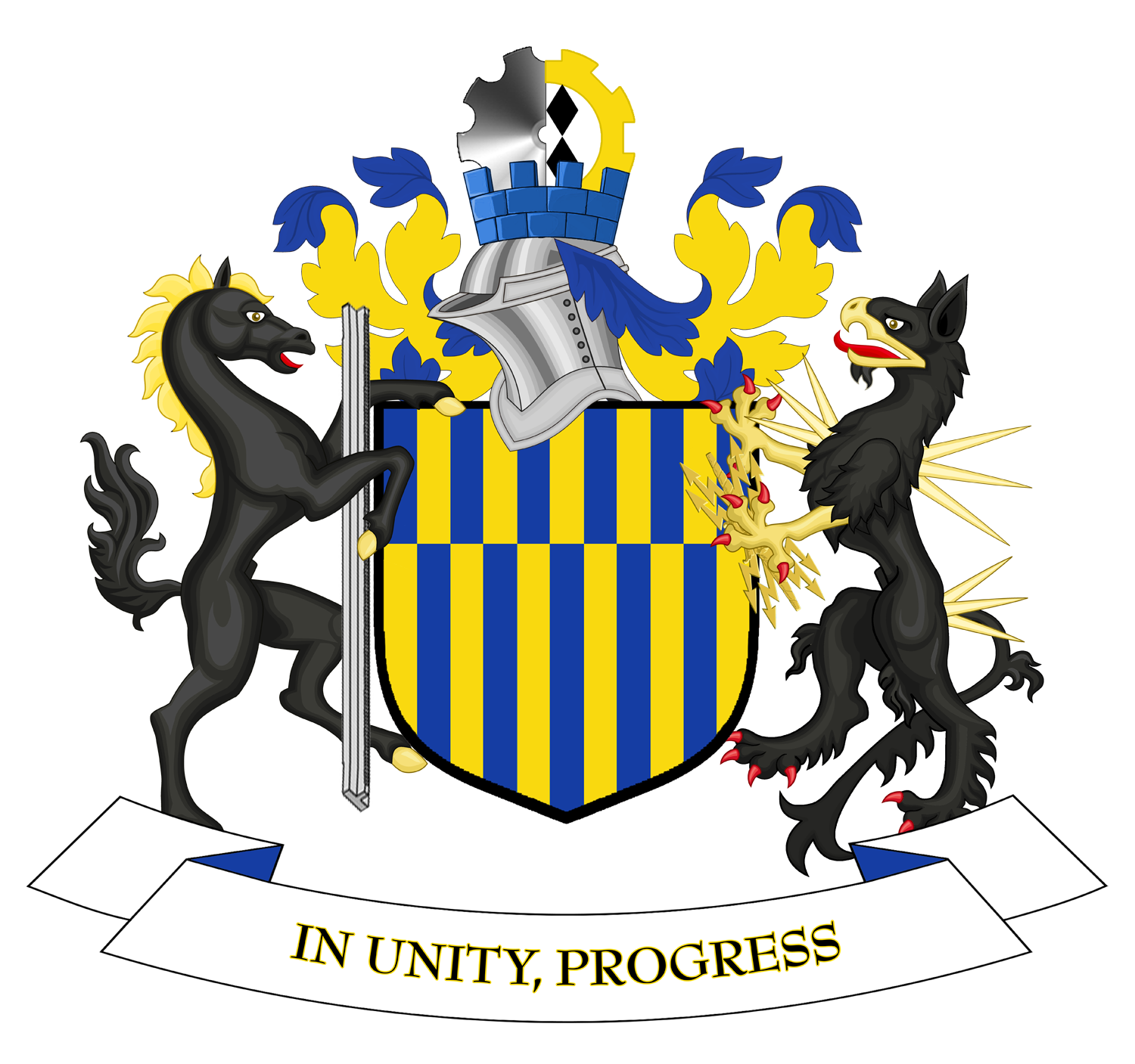 The Coat of arms of Gateshead Metropolitan Borough Council, the local government authority for the Metropolitan Borough of Gateshead, in Tyne and Wear, England. The blazon is:ARMS: Or a Chief Azure overall five Pallets counterchanged.CREST: Issuant from a Mural Crown Azure a Circular Blade of a Plough proper dimidiating an Annulet embattled on the outer edge Or containing two Fusils conjoined palewise Sable; Mantled Azure doubled Or.SUPPORTERS: On the dexter side a Horse Sable unguled and maned Or supporting a Length of Rail Argent and on the sinister side a Male Griffin Sable armed and membered Or holding in the sinister foreclaw a Thunderbolt Or.